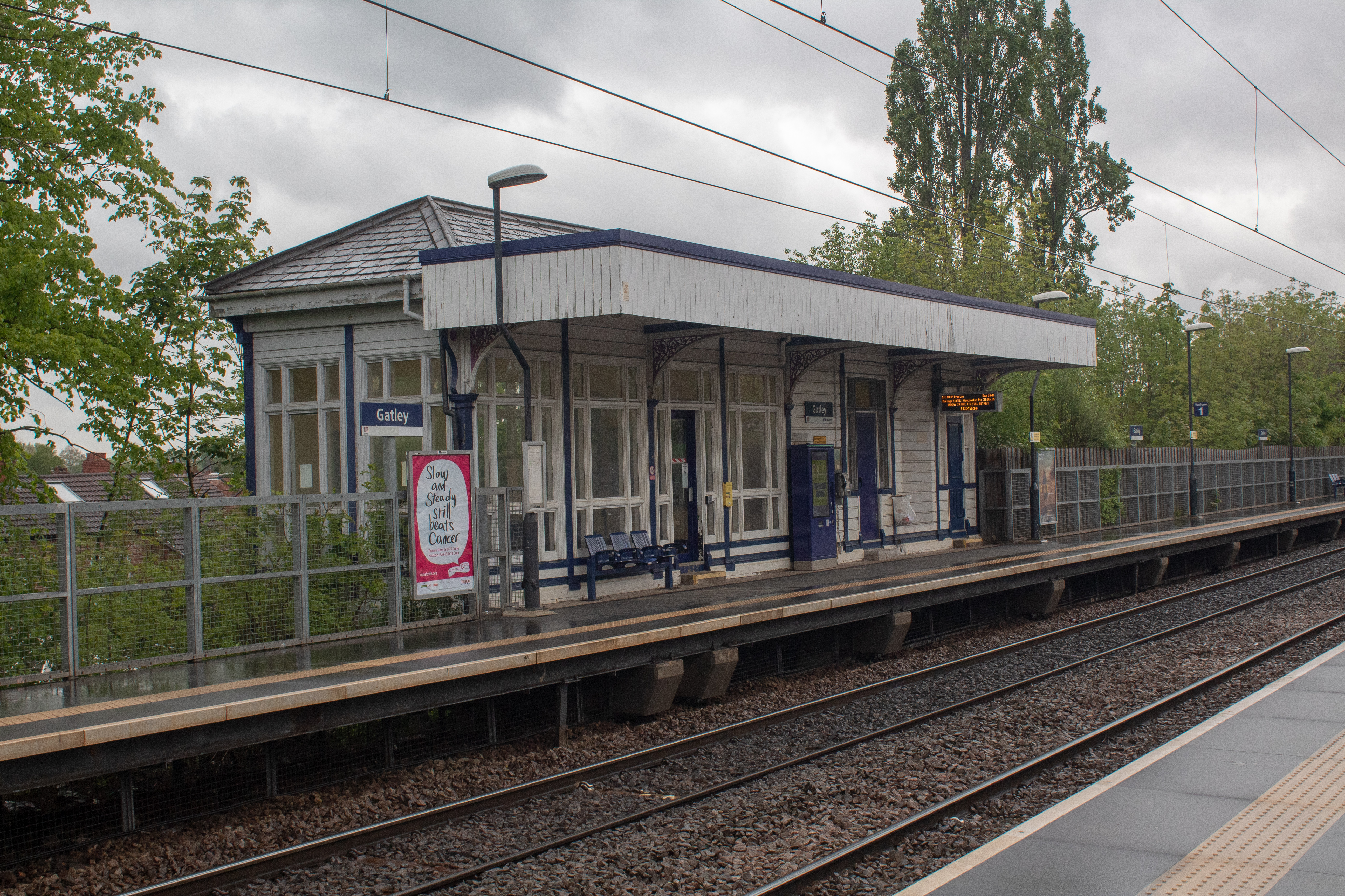 A view of Gatley Railway Station (GTY) Manchester, UK 9th May 2019